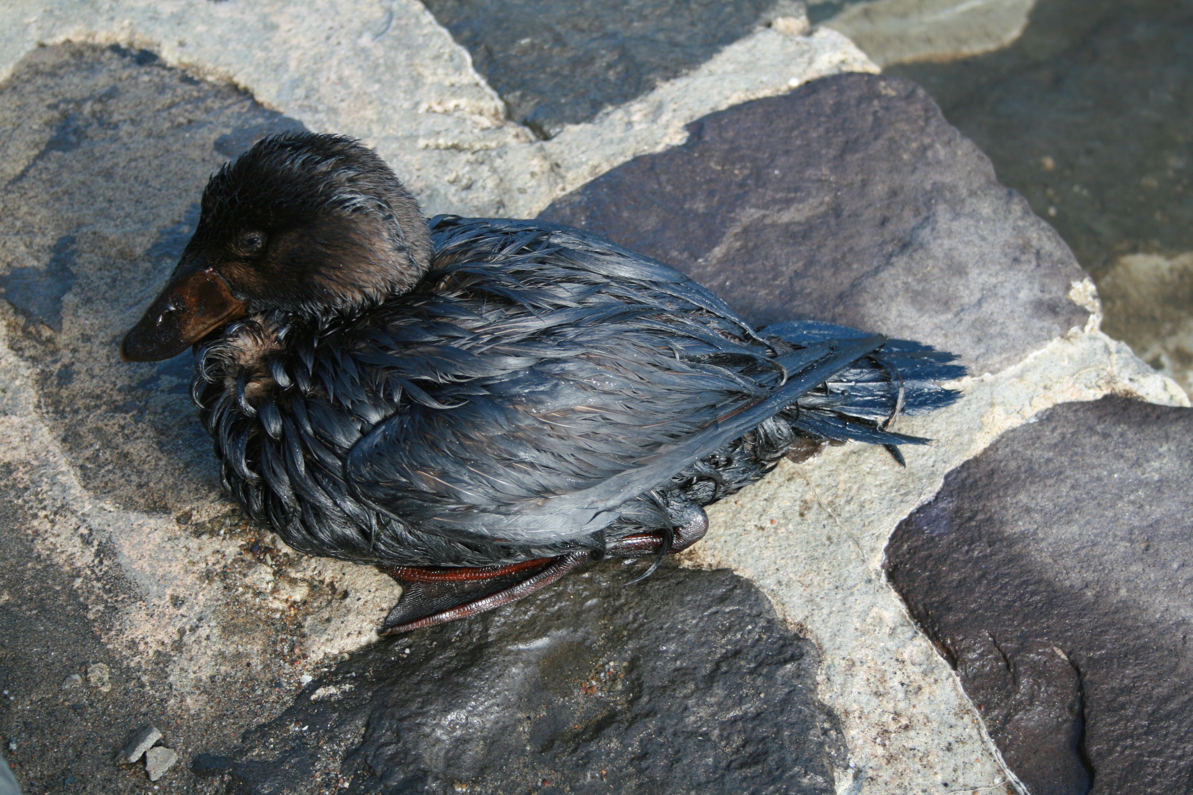 Oiled Surf Scoter Melanitta perspicillata after Oil Spill in San Francisco Bay. About 58,000 gallons of oil spilled from a South Korea-bound container ship when it struck a tower supporting the San Francisco-Oakland Bay Bridge in dense fog on 11/07/07.